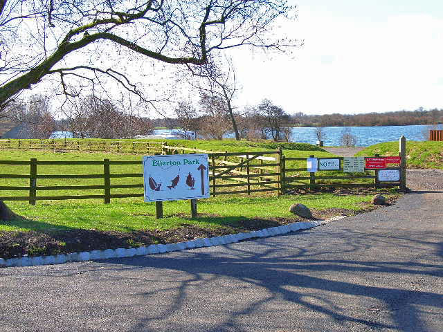 Ellerton Park Leisure Lake, near Ellerton-on-Swale